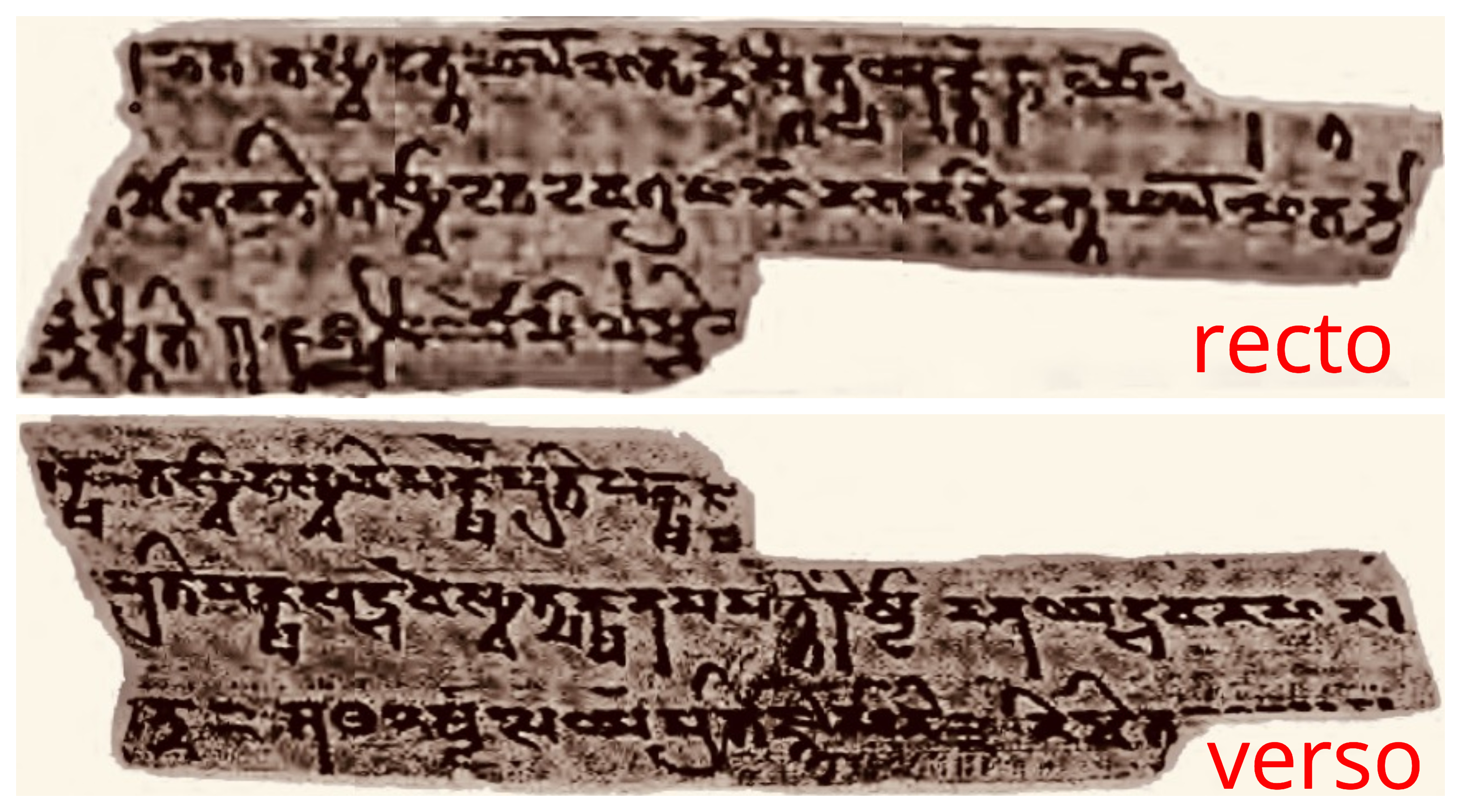 The Spitzer Manuscript is the oldest surviving philosophical manuscript in Sanskrit, and quite possibly the oldest Sanskrit manuscript of any type related to Buddhism and Hinduism discovered so far. It was discovered in 1906 in the form of a pile of more than 1,000 palm leaf fragments in the Ming-oi, Kizil Caves, China during the third Turfan expedition headed by Albert Grünwedel. The calibrated age of the manuscript by Carbon-14 technique is 130 CE (80–230 CE). The text is written in the Brahmi script (Kushana period) and some early Gupta script. The text was written on both sides of the palm leaf (recto and verso). It is named after Moritz Spitzer, whose team first studied it in 1927–28. The fragments are now in two libraries: the State Library of Berlin and the British Library The above image of fragment from folio 383. The Roman transliteration of the Sanskrit in the first line of the recto side is: ... ceta.. tasma... dattaphalo hetur nastity ayuktam... The Roman transliteration of the Sanskrit in the first line of the verso side is: ... [pa]kasah tasmad asma(d)vipaksapratipaksas... For more details and scholarly discussion see: Eli Franco (2004), The Spitzer Manuscript: The Oldest Philosophical Manuscript in Sanskrit, Volume 2, Verlag Der Österreichischen Akademie Der Wissenschaften, pages 461–465 This is a photograph of a manuscript from the 2nd-century, and PD-Art guidelines of wikimedia commons apply. Any rights I have as a photographer, I herewith donate to wikimedia commons under CC 4.0.